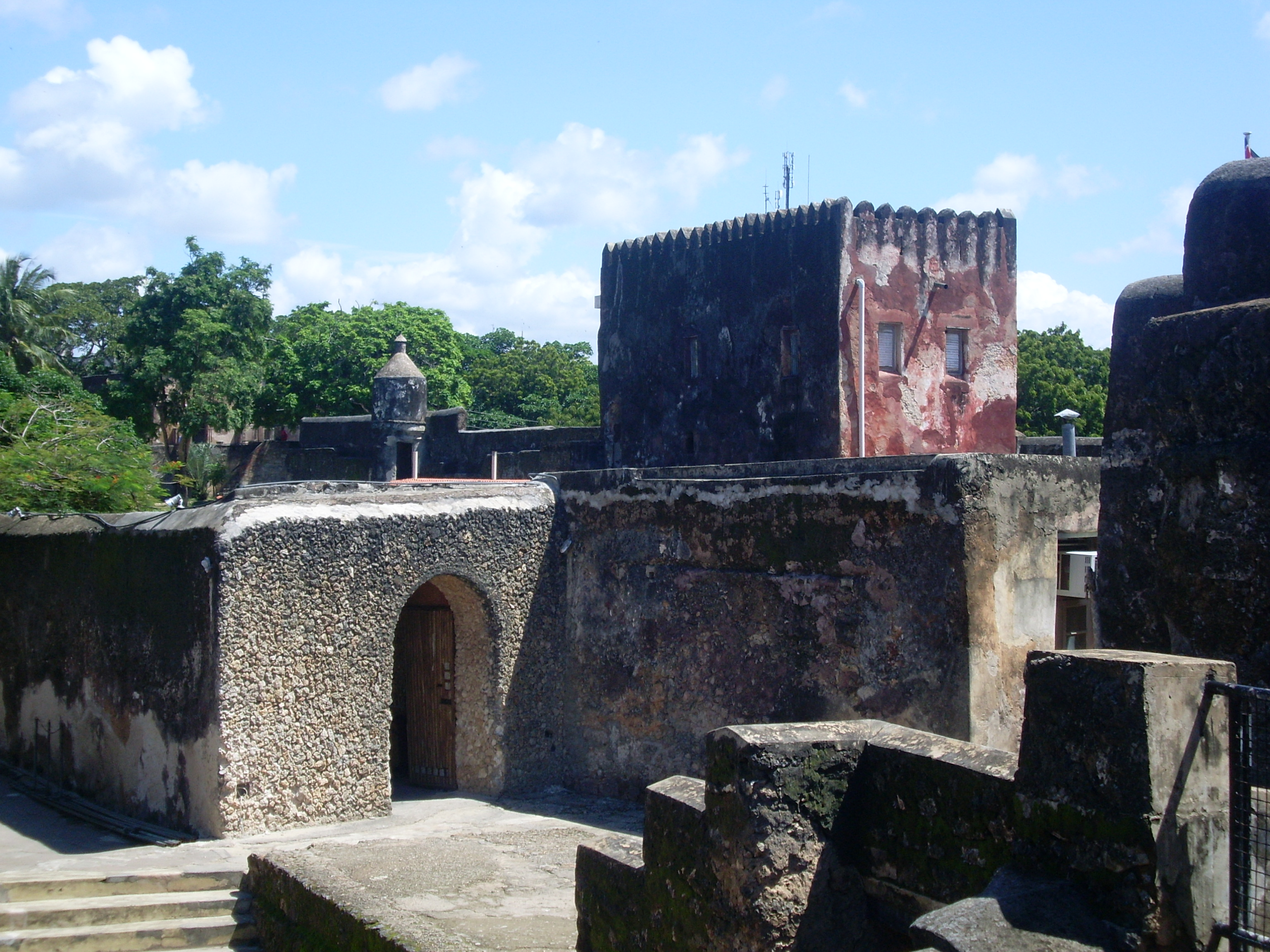 The top of the Fort